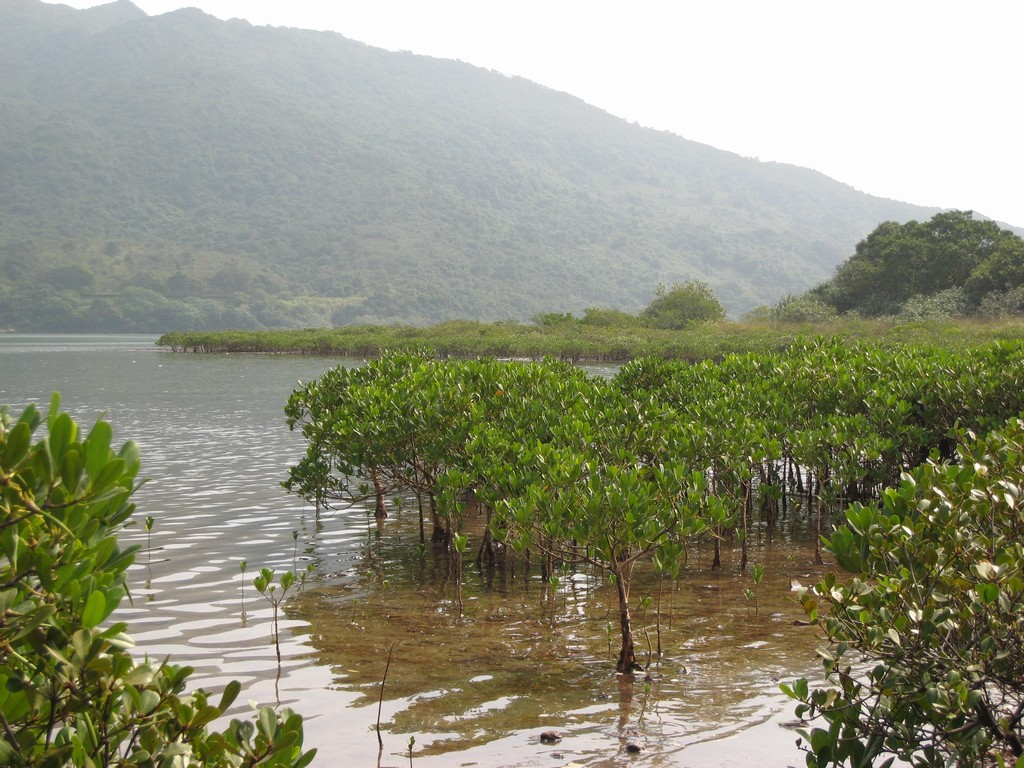 Black mangrove or river mangrove, Aegiceras corniculatum.